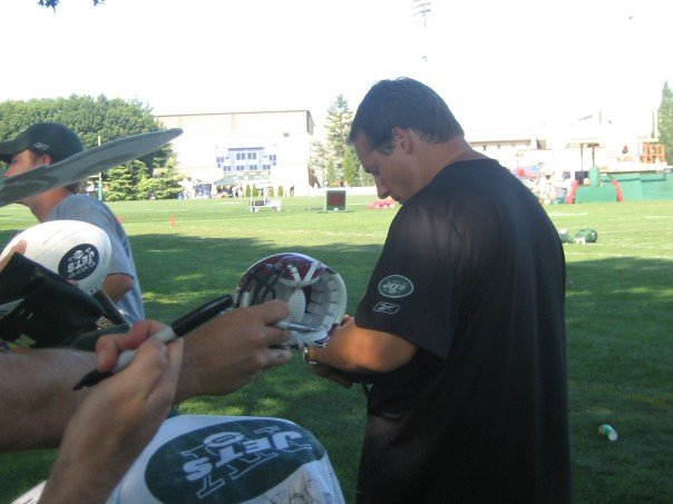 Picture taken by myself at Jets training camp in 2007.